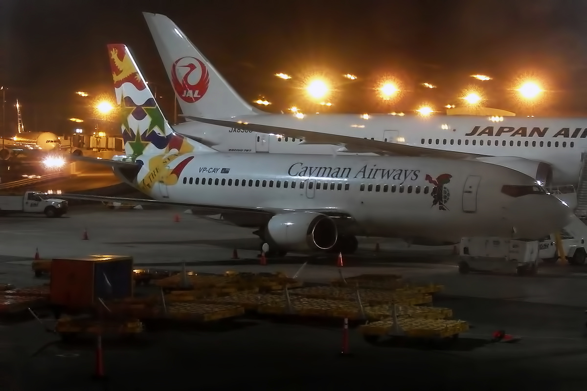 Cayman Airways, VP-CAY, Boeing 737-3Q8